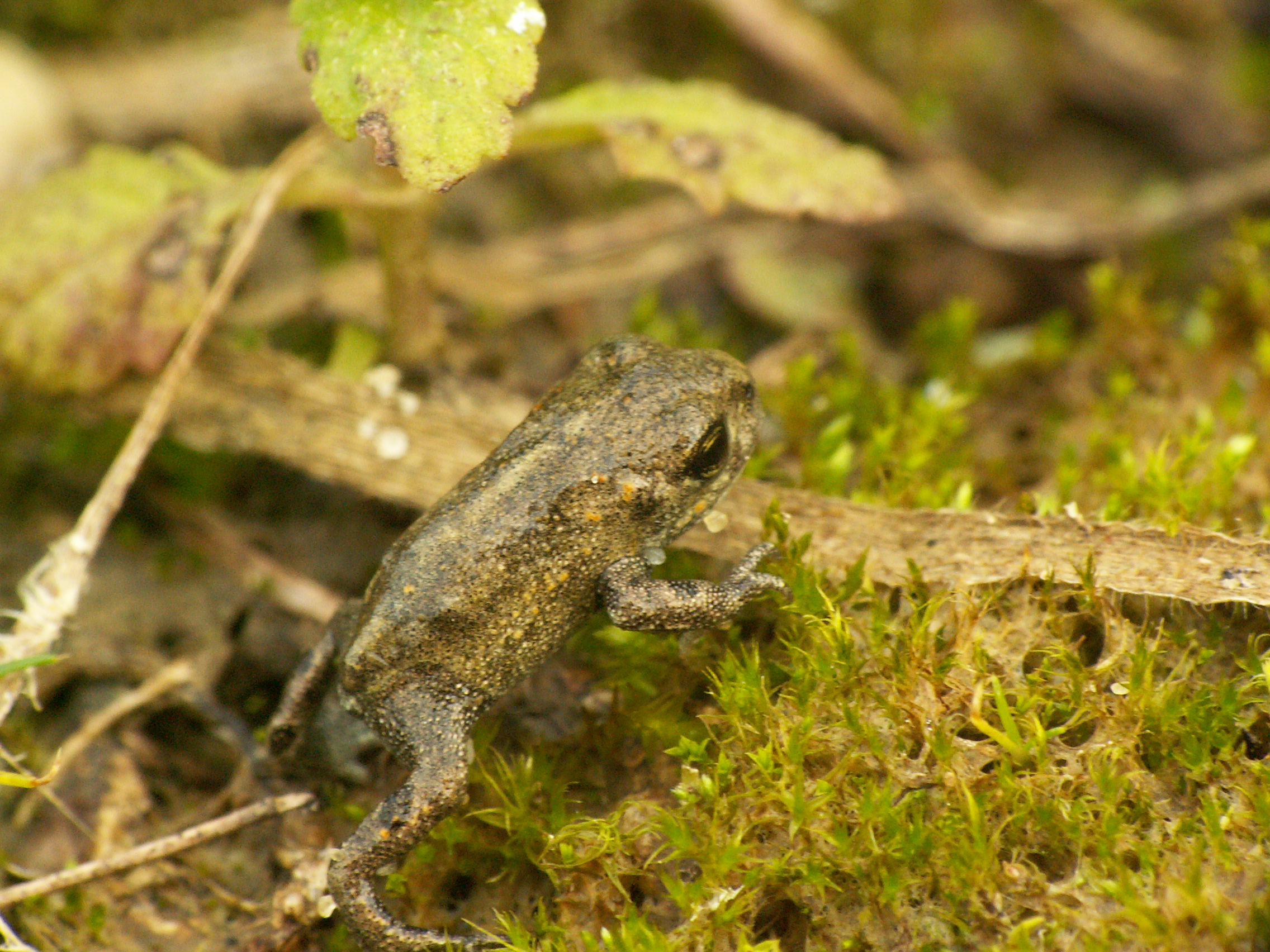 Very young specimen found in september of Epidalea calamita (Utrecht, The Netherlands)